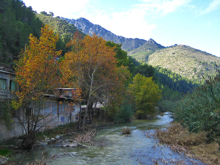 Riu Serpis, aigües amunt de Vilallonga i aigües avall de l'Orxa, a la Safor, País Valencià. River Serpis, upstream of Vilallonga and downstream of l'Orxa, in county Safor, Region of Valencia, Spain.